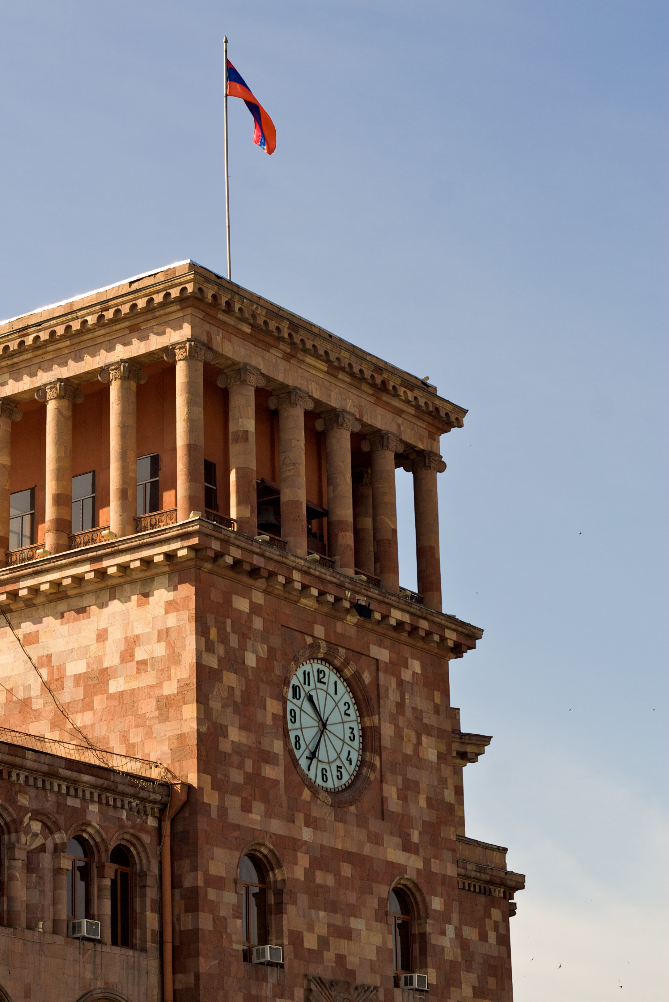 Republic Square, Yerevan